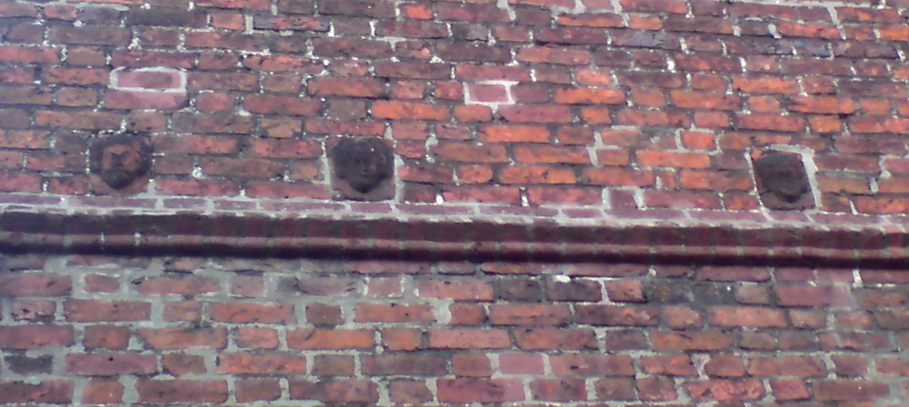 Mascaron on StMary's Church in Gryfice (Poland)